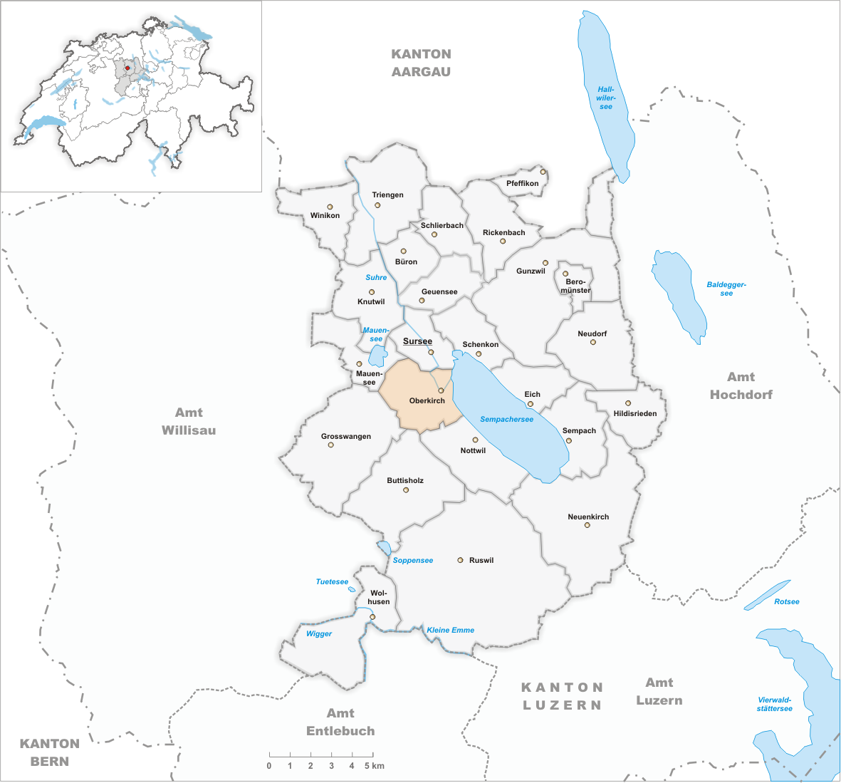 Municipality Oberkirch